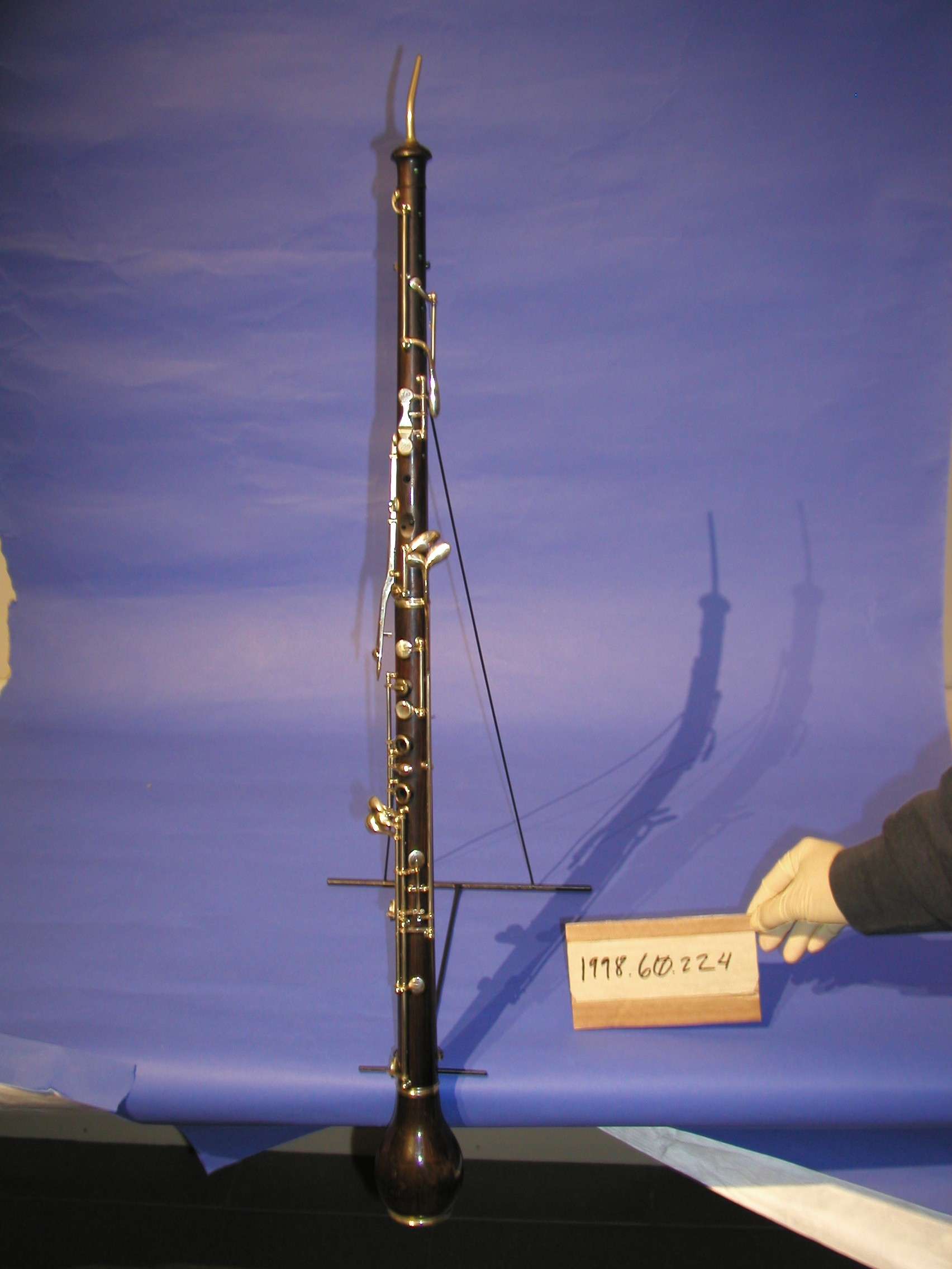 Cor anglais, rosewood, twelve nickel silver keys, two nickel silver joints, bulbous bell with metal ring on end, five open holes, nickel silver thumb rest, wood case with black exterior, blue velvet lining, brass catches and nickel silver handle 1 cor anglais Gautrot-Marquet, Paris, France, circa 1875 rosewood, nickel-silver ferrules and keys, overall length 790 mm without bocal stamped ‘GAUTROT-MARQUET - PARIS - BREVETTE S.G.D.G. - 1988’ 1998.60.224 Castle 352 (purchased)